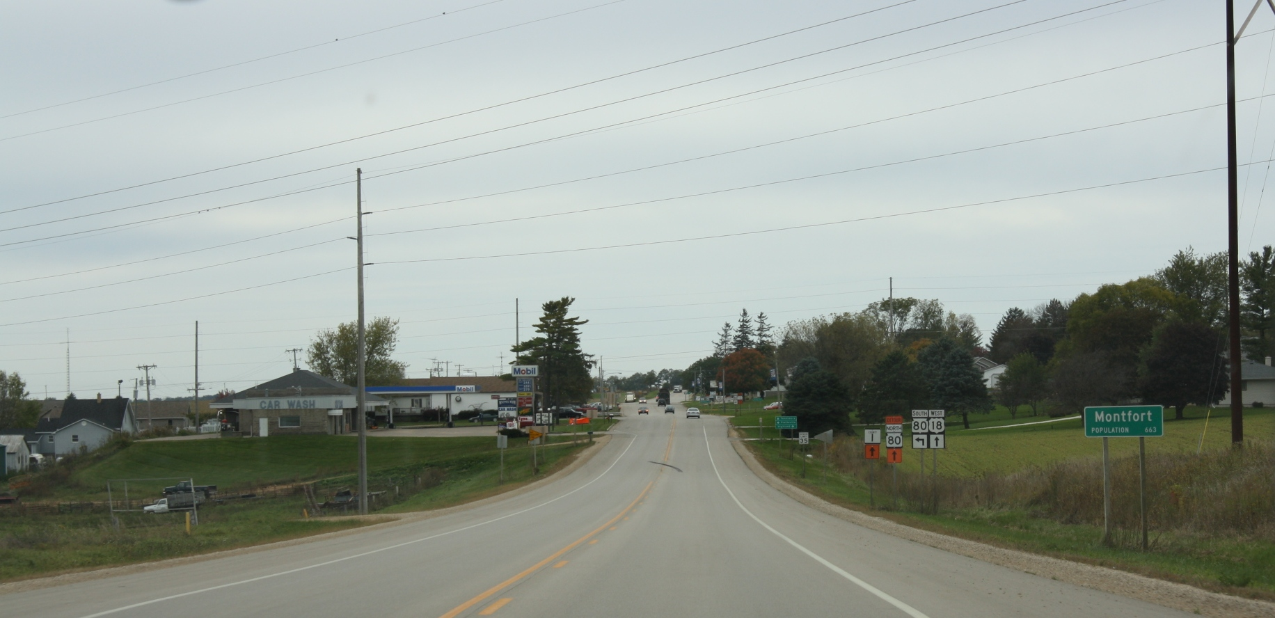 Looking west at the sign for Montfort, Wisconsin while traveling on U.S. Route 18 / Wisconsin Highway 80.